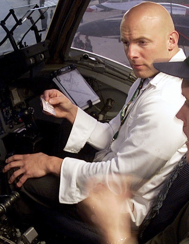 United States Air Force Major David Beasley, left and Captain Gabb Gray explain some of the capabilities of the C-17 Globemaster to Atlanta Falcon's receiver Tim Dwight, during the National Football League Players Huddle Party at MacDill Air Force Base.